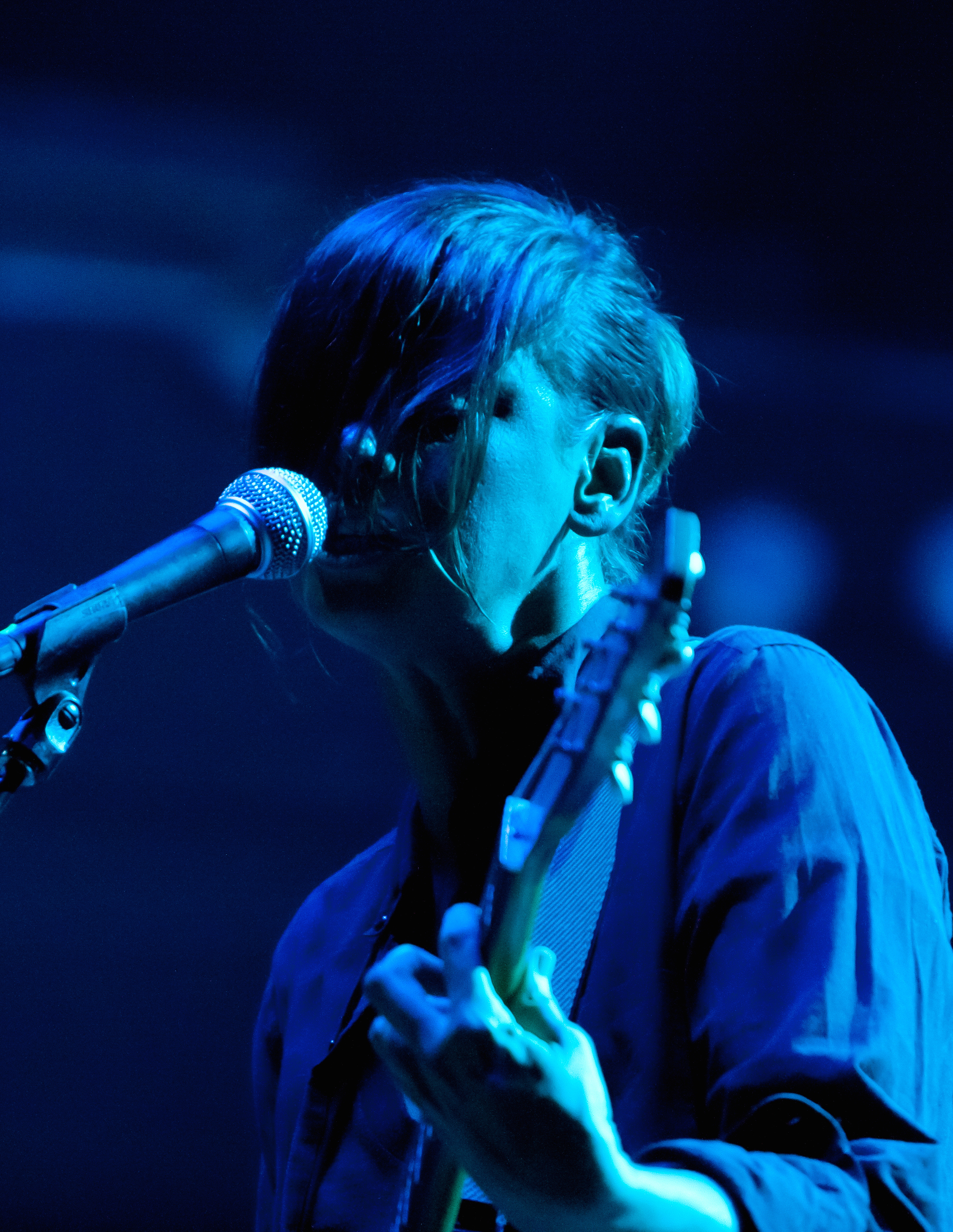 Chan Marshall, NYC 2011